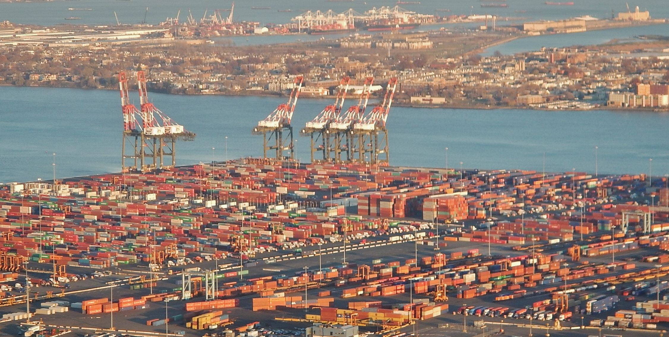 Flight to Newark Liberty International Airport (EWR) with view to Newark Bay